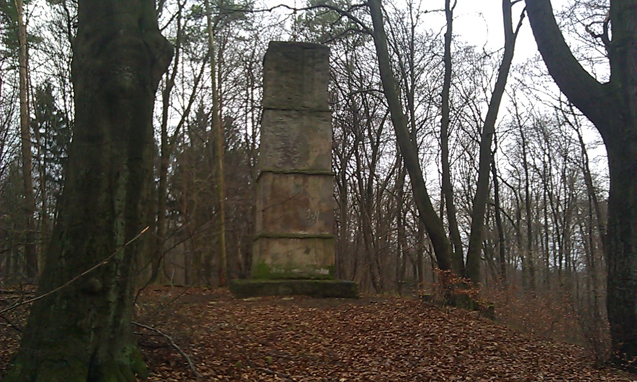 Conradi Tower, near Heyersum